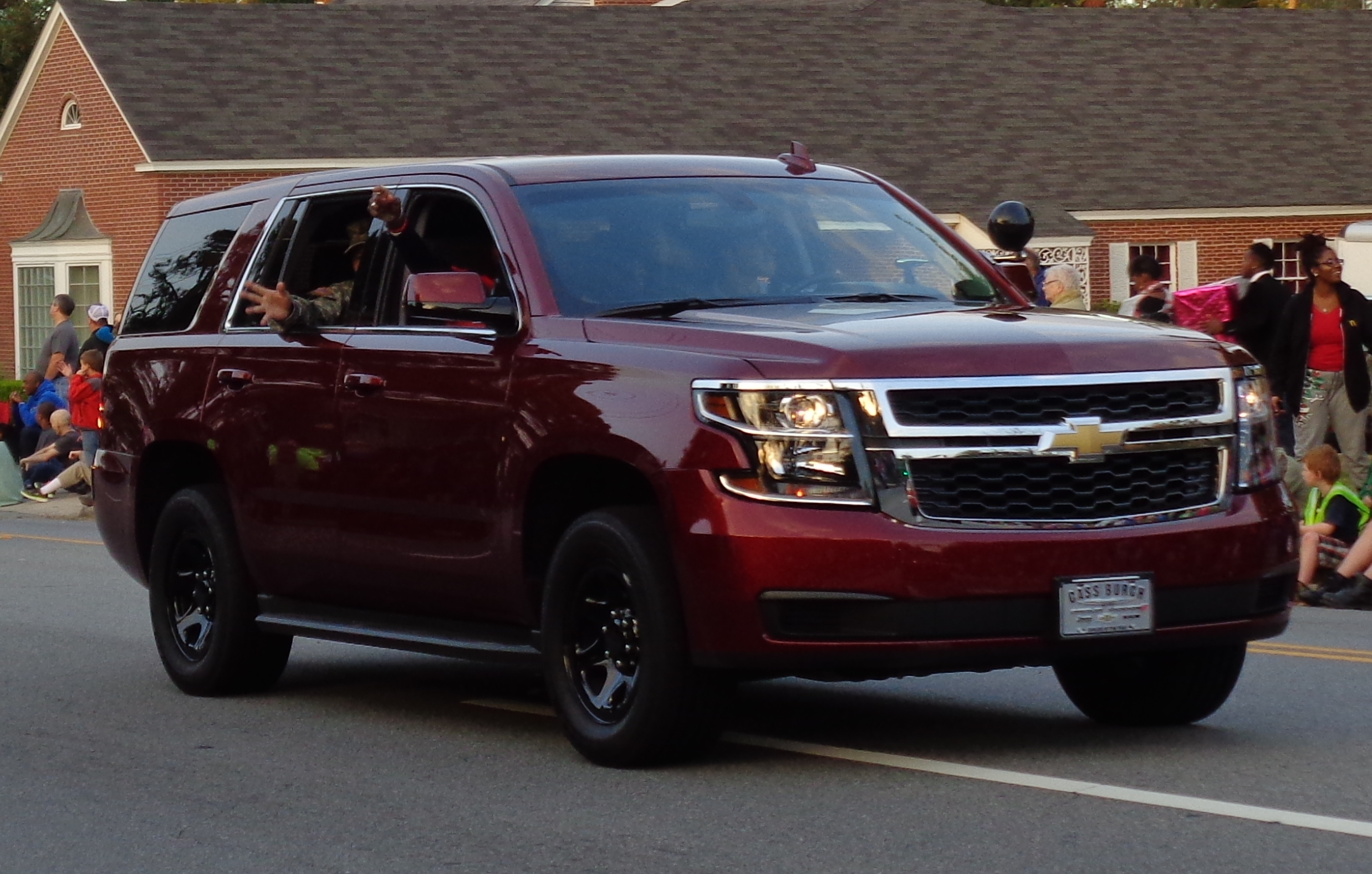 2015 Greater Valdosta Community Christmas Parade, Valdosta, Lowndes County, Georgia